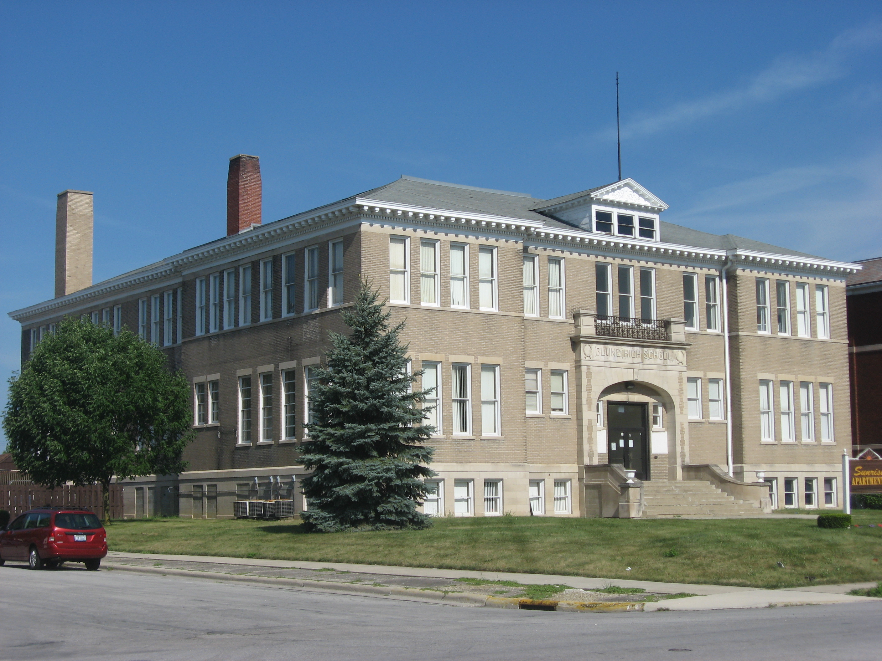 Front and southern side of the former Blume High School, located at 405/409 Blackhoof Street in Wapakoneta, Ohio, United States. Built in 1908 and since converted into apartments, it is listed on the National Register of Historic Places.